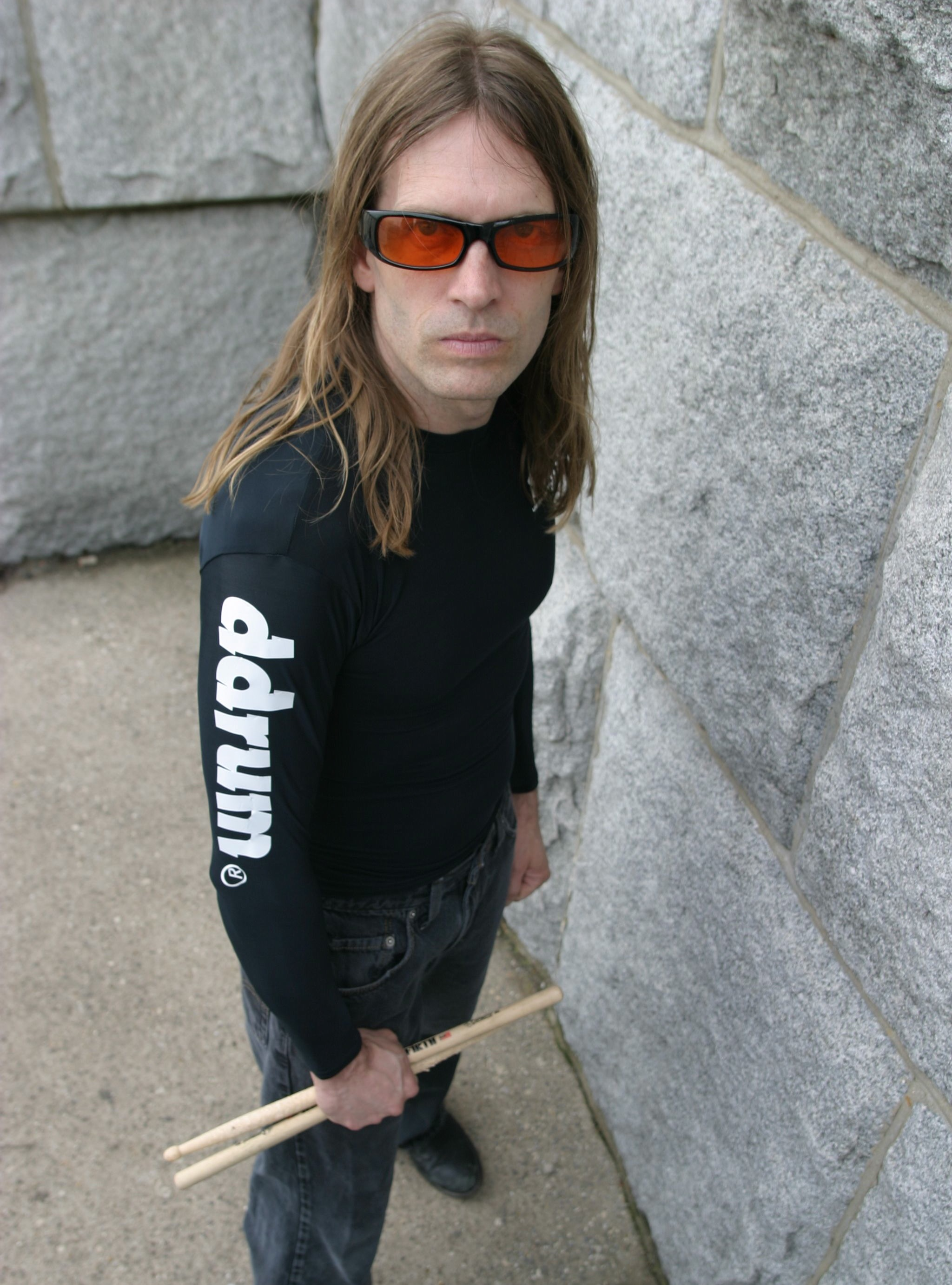 Jeff Olson promotional photo for ddrum and Vic Firth